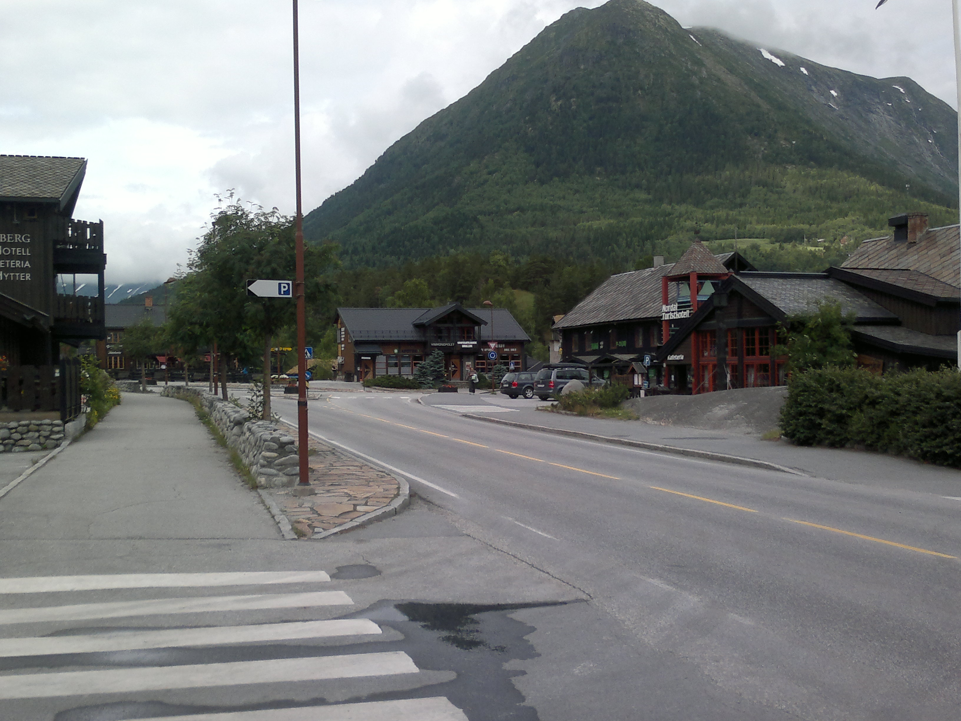 Centre of Lom in Oppland county, Norway.